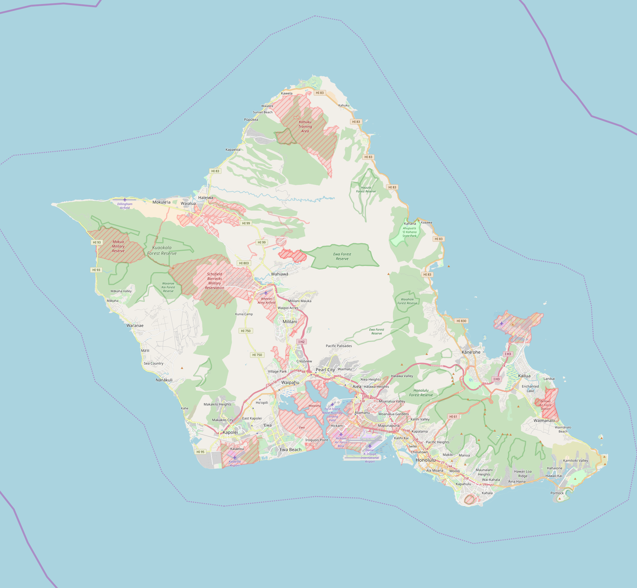 OpenStreetMap - Map of Oahu